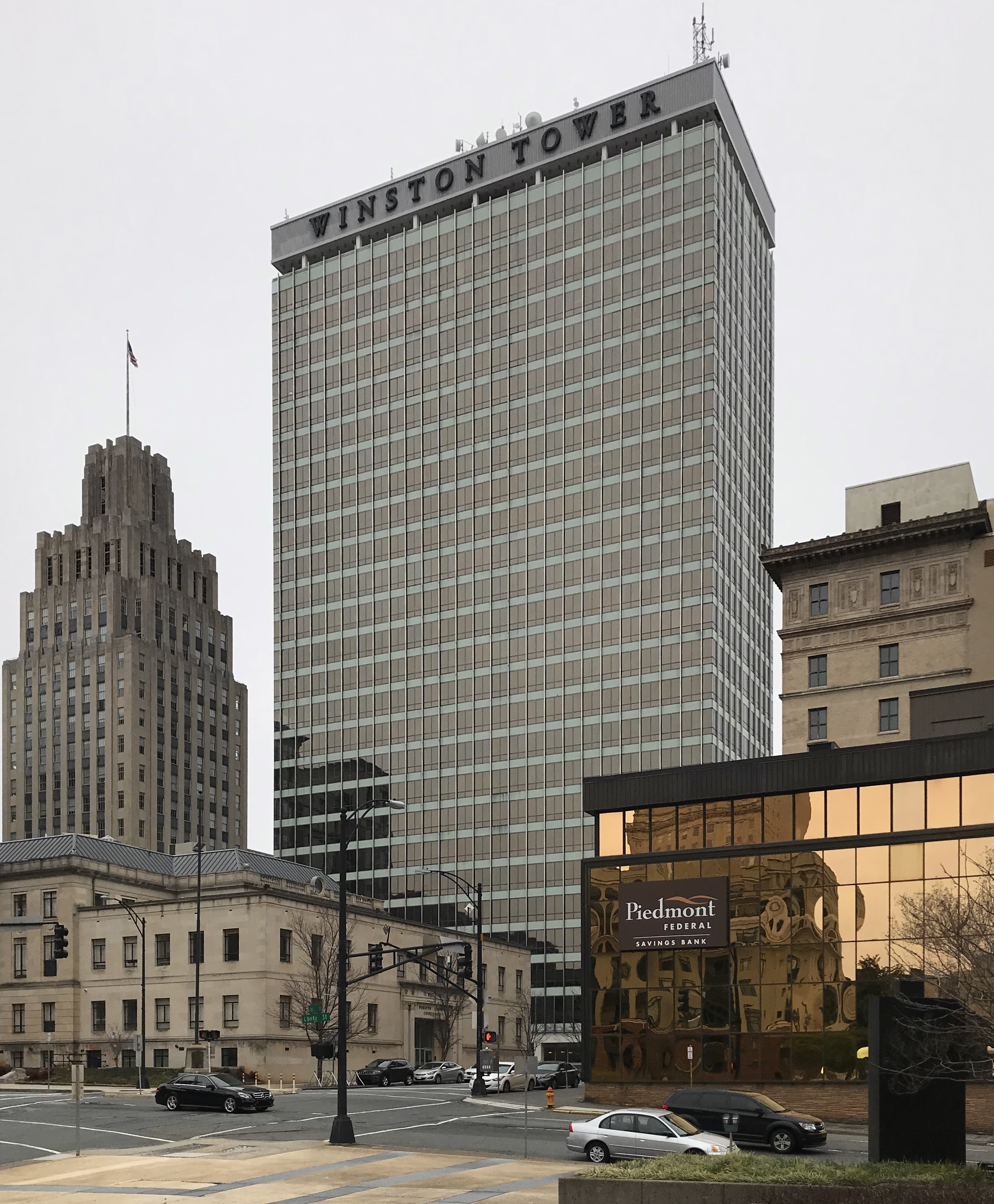 Buildings in Winston-Salem, including Winston Tower and former Forsyth County Courthouse